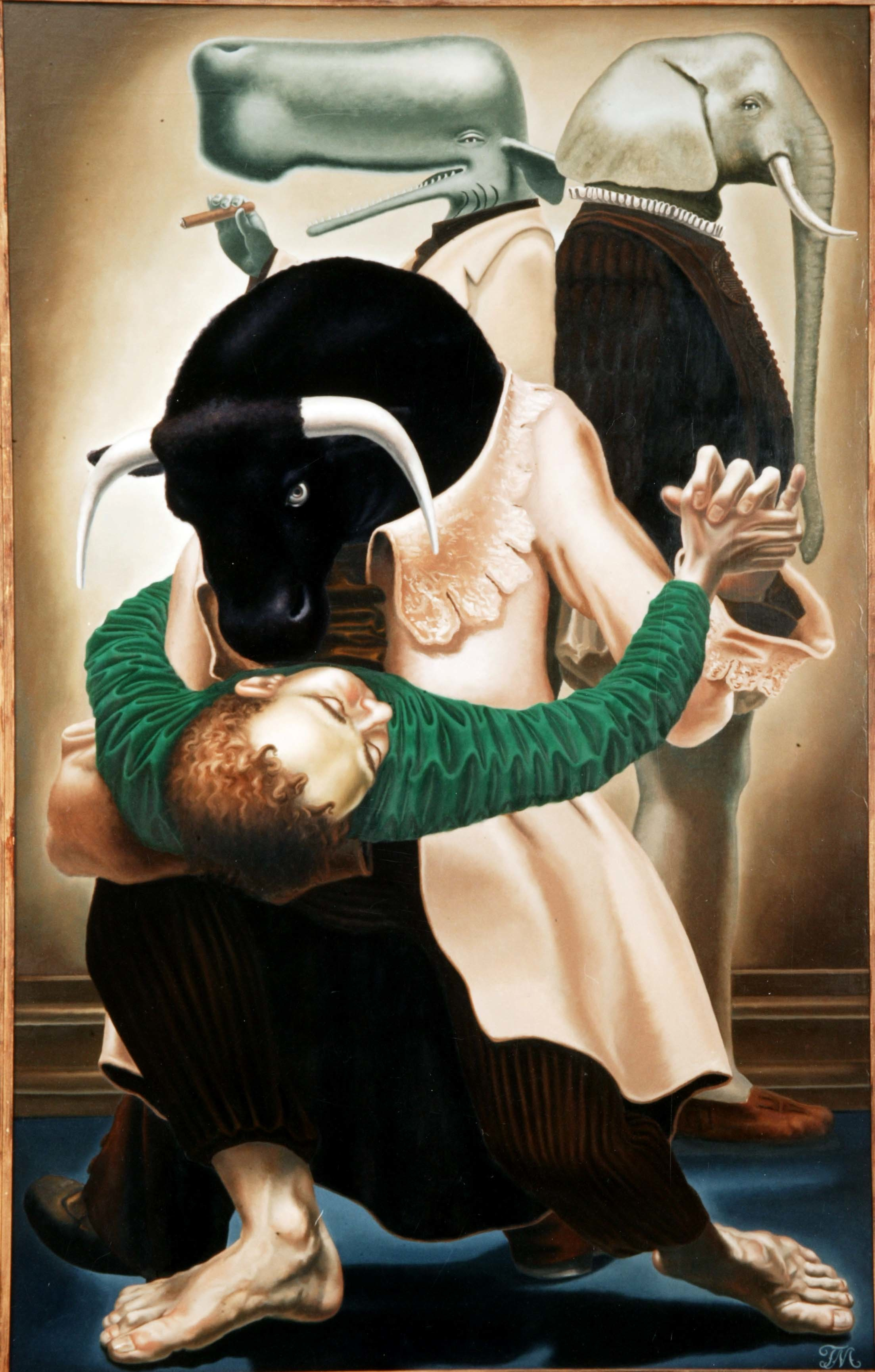 Oil on canevase by Norwegian contemporary artist. The composition in the center between the bull and the figure is an oval. The bull obviously has the advantage in position and physical strength. The choice of colours is hearthly and the use of green in the figure's coat symbolises Hope.